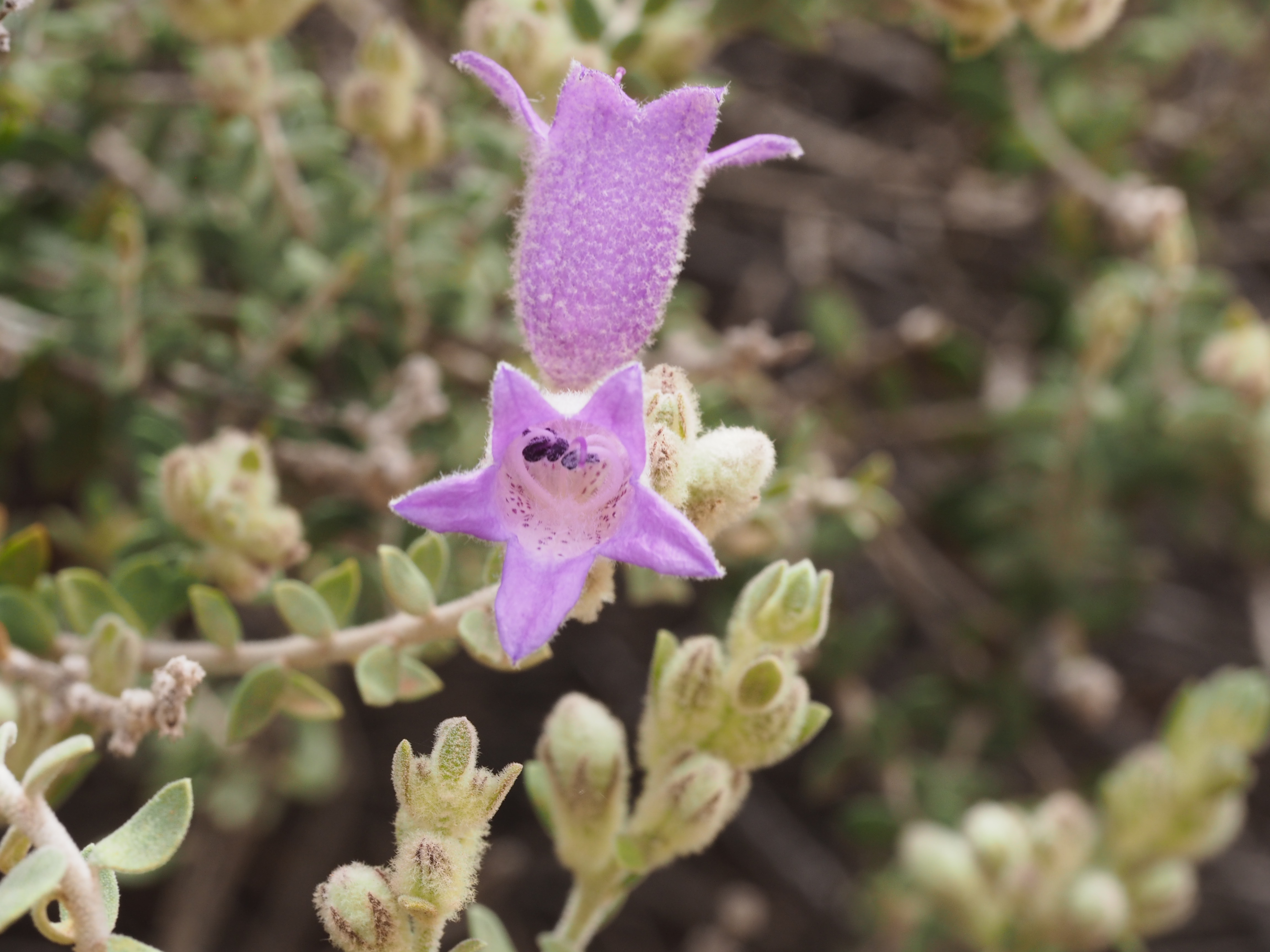 Eremophila malacoides growing 50km west of Wiluna